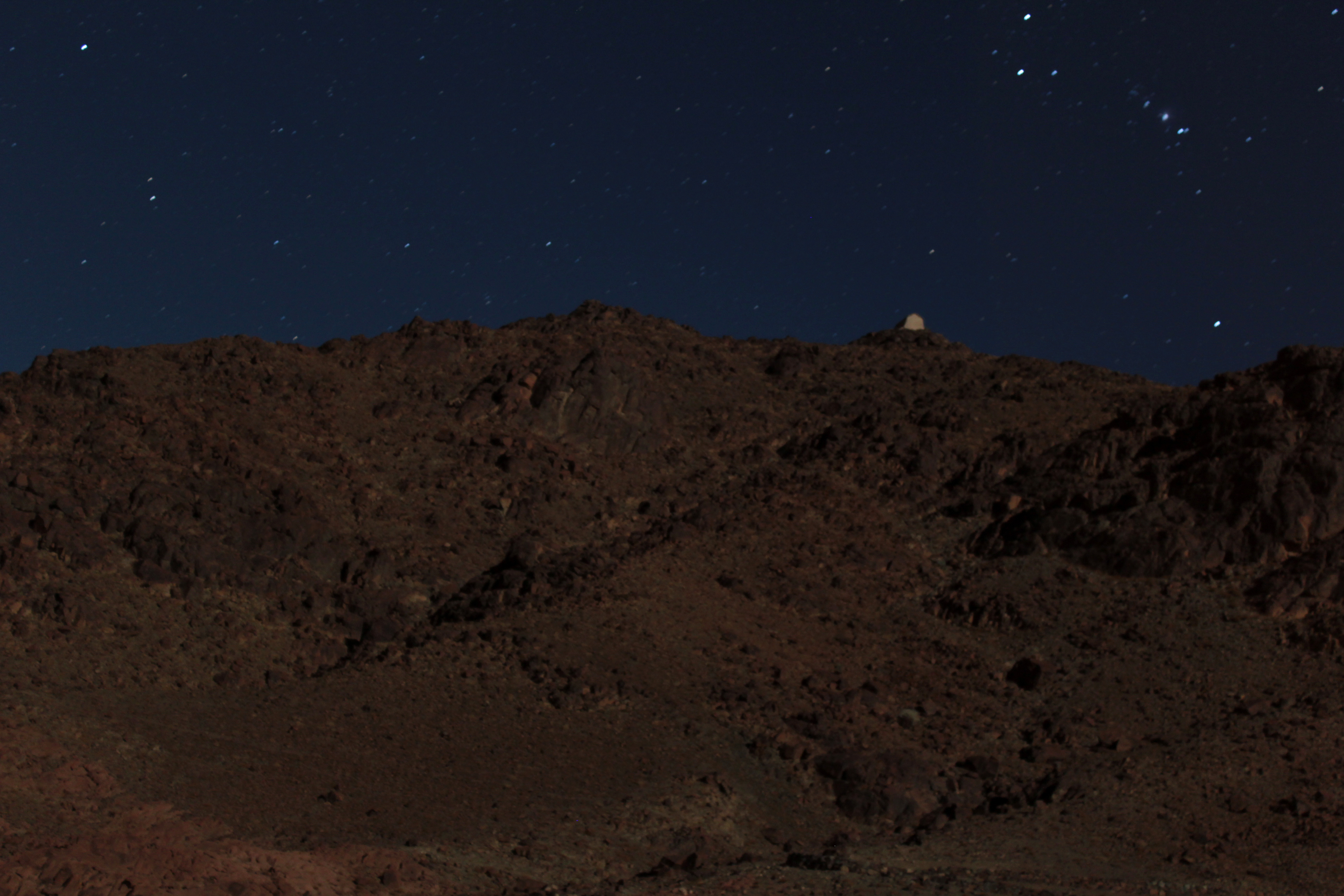 Moses mountain at night , Saint Catherine